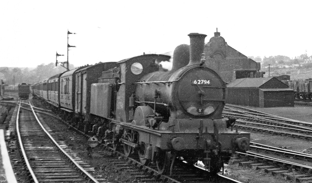 A GE old-stager brings a slow train from Cambridge into Colchester (North) Station. View westward, towards Marks Tey and London (Liverpool Street); ex-Great Eastern London - Colchester - Ipswich - Norwich main line. The train had joined the main line at Marks Tey, having plodded across from Cambridge via Haverhill and Sudbury. The locomotive is LNER E4 2-4-0 No. 62794, one of a once numerous class of express engines, surviving owing to the weight limitations suffered on the GE Section. On the right is Colchester Goods Station.